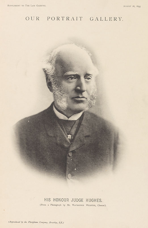 Thomas Hughes (1822-1896)